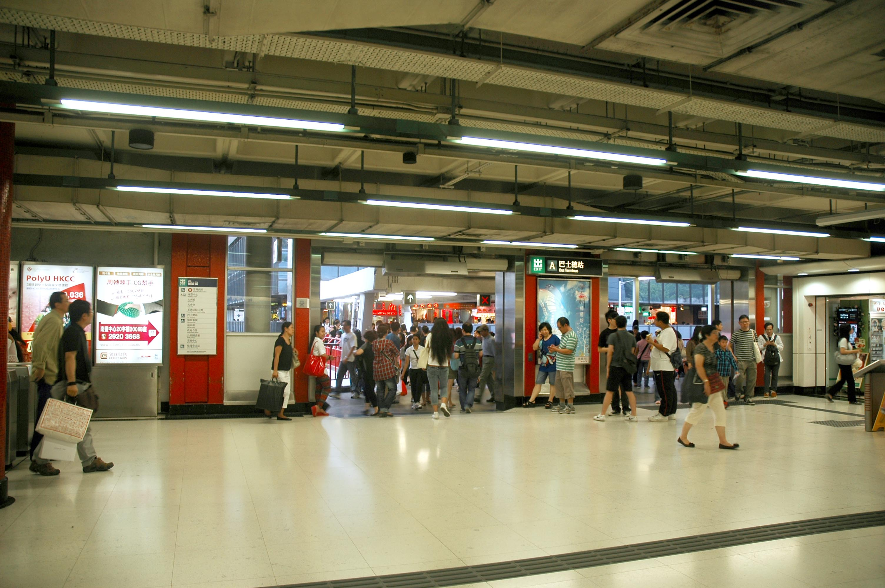 Tsuen Wan Station Exit A